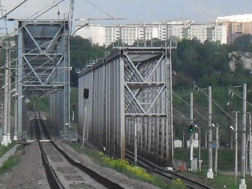 железнодорожный мост через оку около города Кашира(фермы)